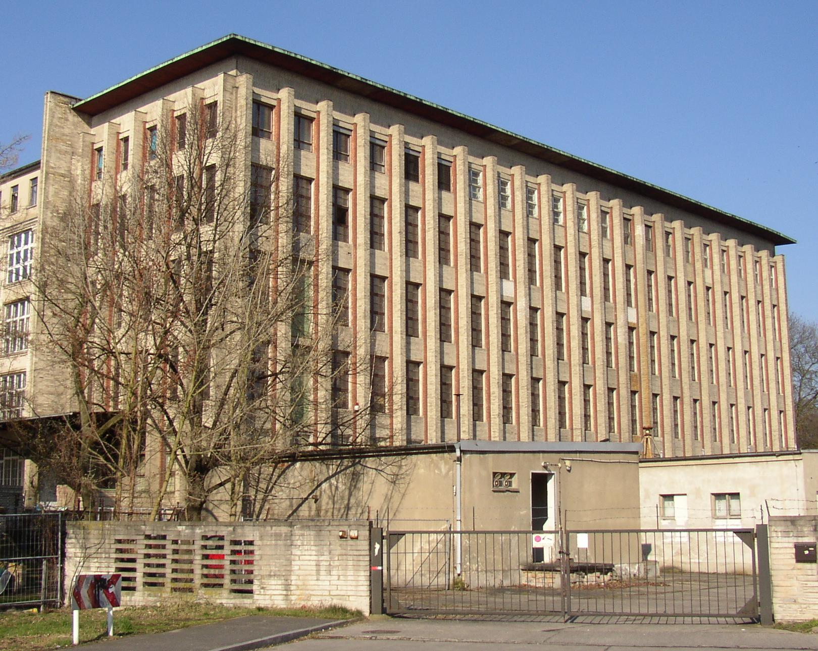 Former cigarette factory building in Berlin-Pankow, Germany